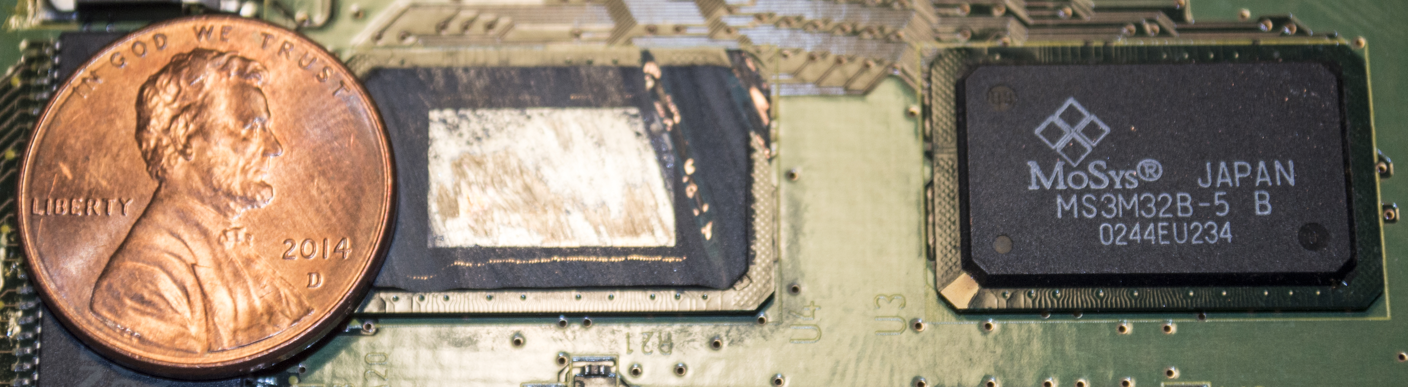 One of the two 12MB MoSys 1T-SRAM RAM modules shaven down to expose the silicon die in the Nintendo GameCube.